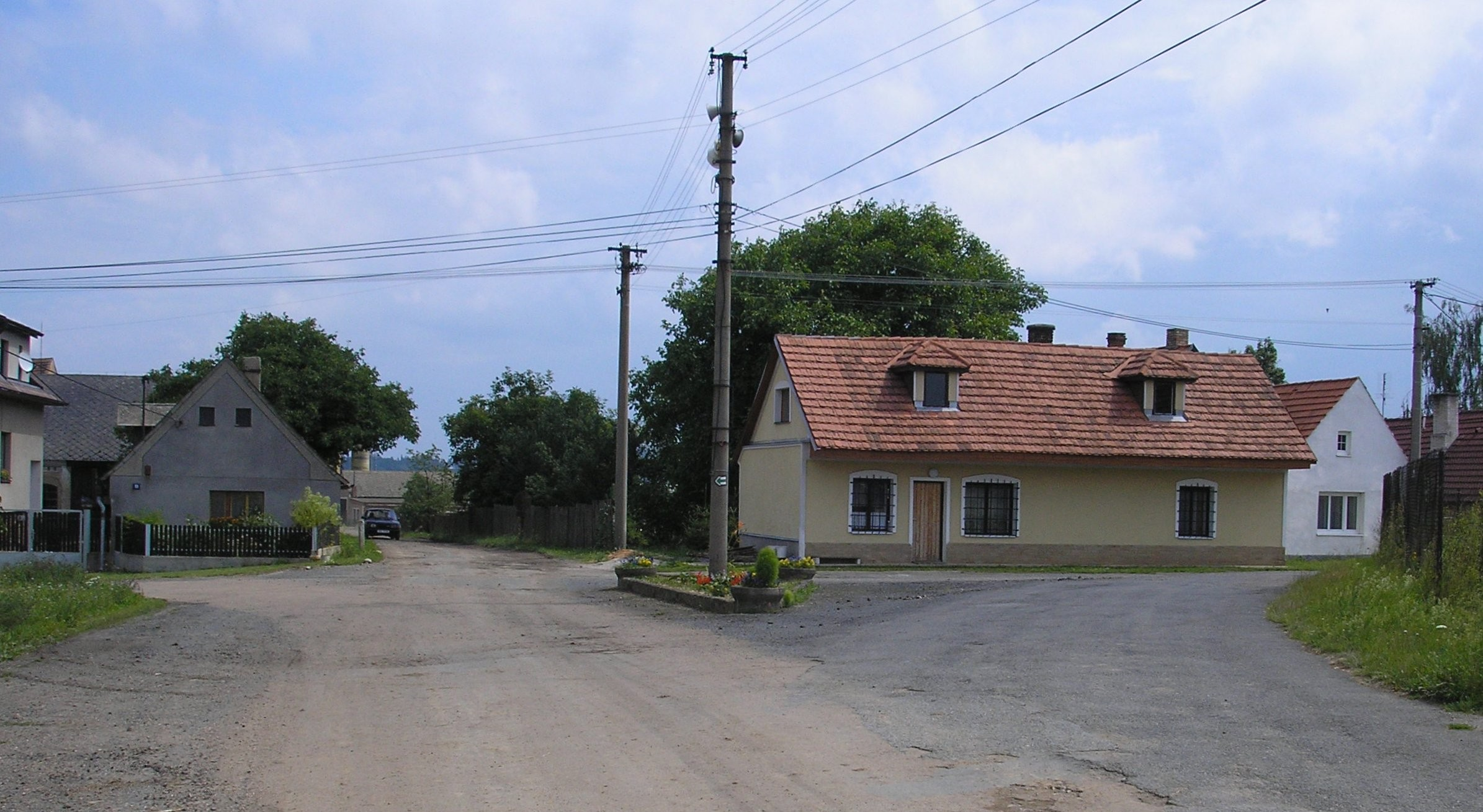 Village square in Lhotka u Radnic, Czech republic